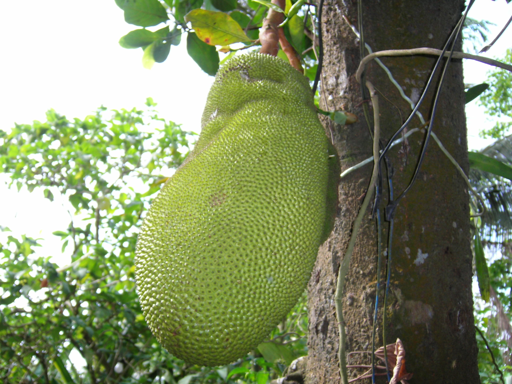 Jackfruit. Picture taken in the Phillipines